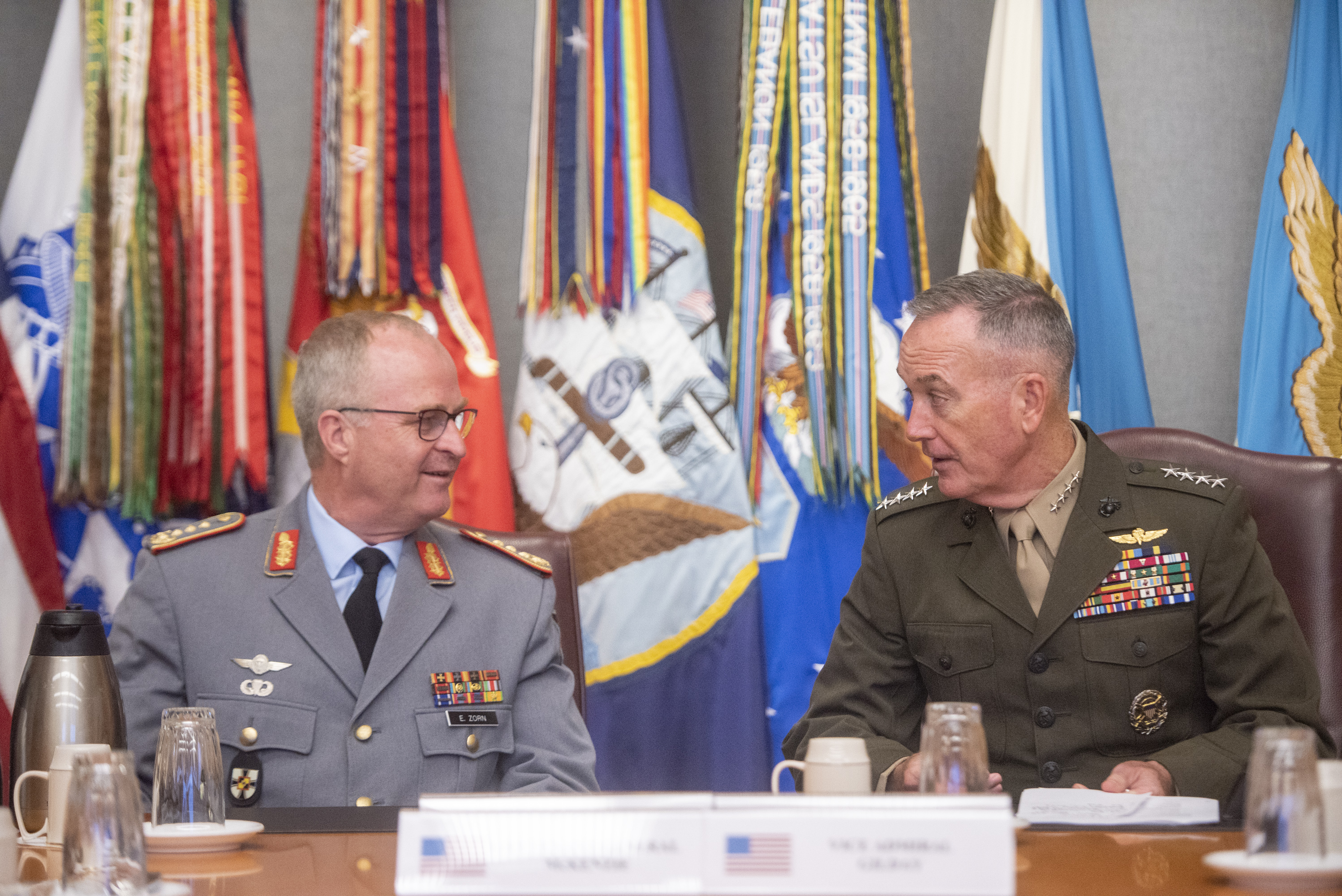 Marine Corps Gen. Joe Dunford, chairman of the Joint Chiefs of Staff, speaks to German Inspector Gen. Eberhard Zorn, chief of staff of the Federal Armed Forces, in the tank during a counterpart at the Pentagon, Sept. 19, 2018. (DOD Photo by Navy Petty Officer 1st Class Dominique A. Pineiro)